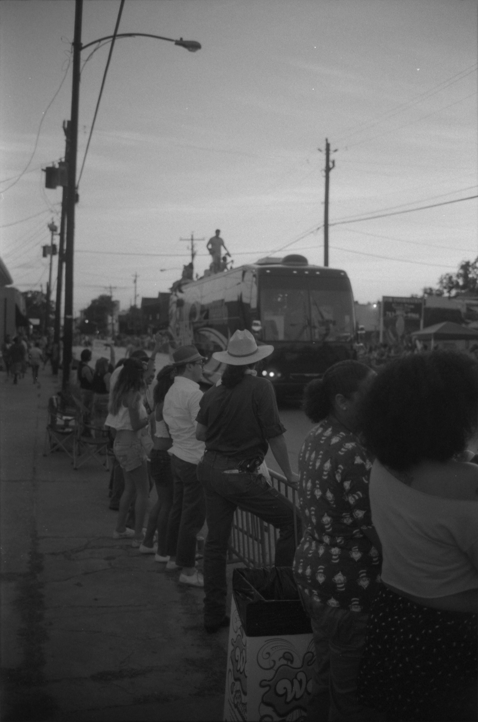 Houston Gay Pride Parade Summer 2013 Zeiss Ikon Nokton 35 f1.2 v2 Tri-X 400 This roll of film may be slightly faded as it has traveled with me multiple times in the air.